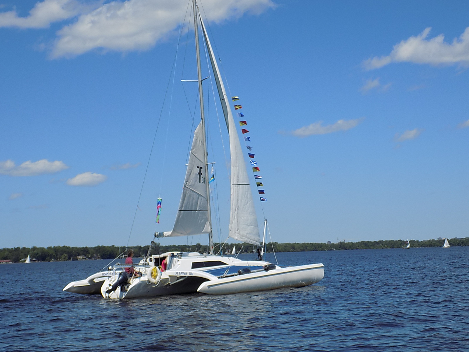 A Corsair F31 trimaran sailboat named Osprey.